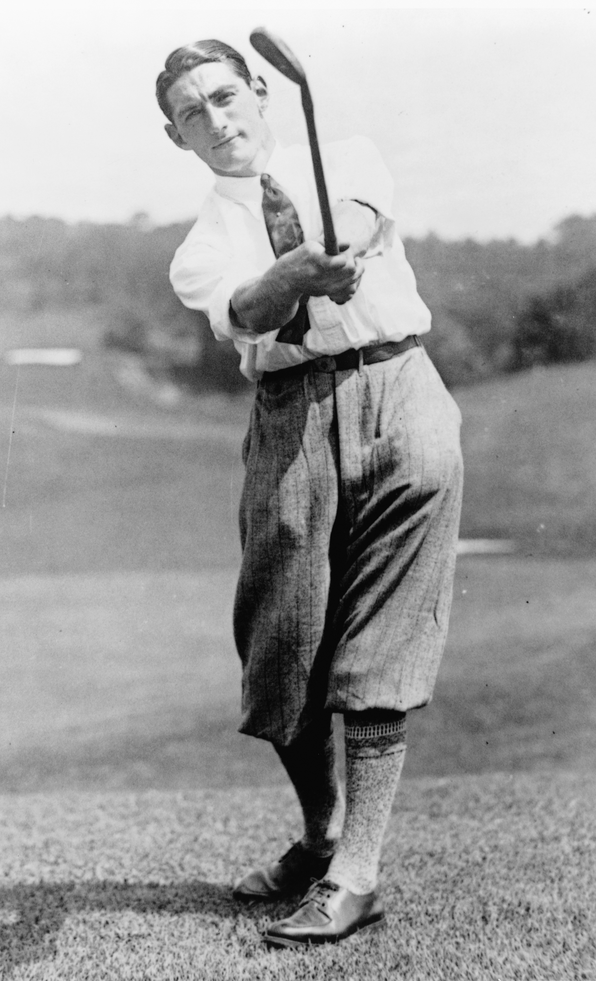 Tommy Armour, published after he won the 1927 U.S. Open. Original caption read: "Tom Armour wins U.S. golf title by defeating Harry Cooper".